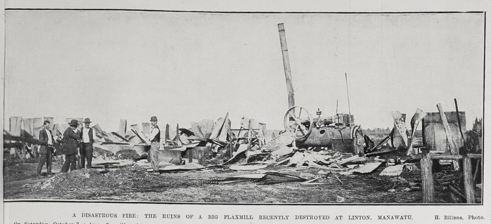 Linton steam-powered flaxmill after fire AWNS-19111019-11-1